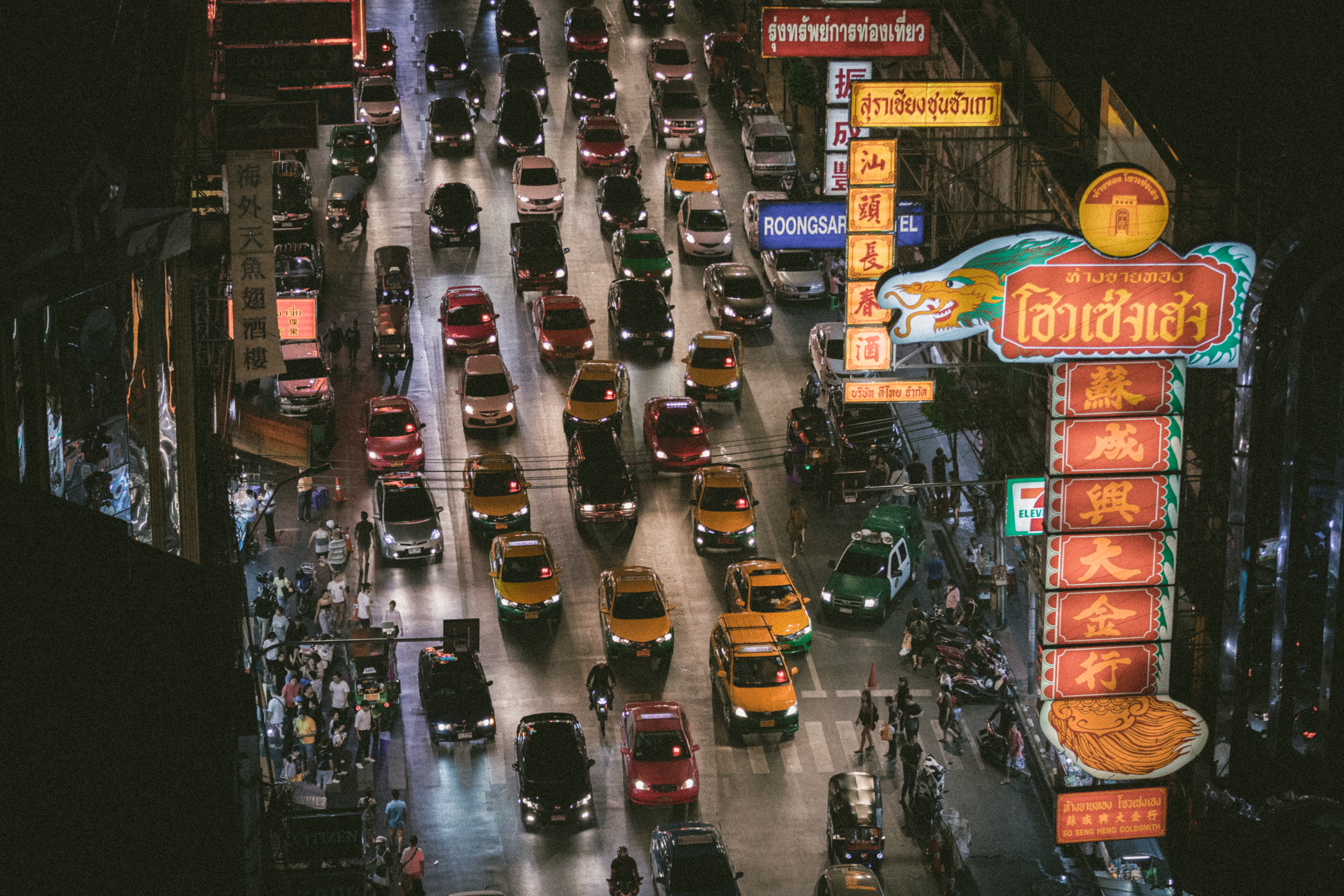 Chinatown, Bangkok, Thailand